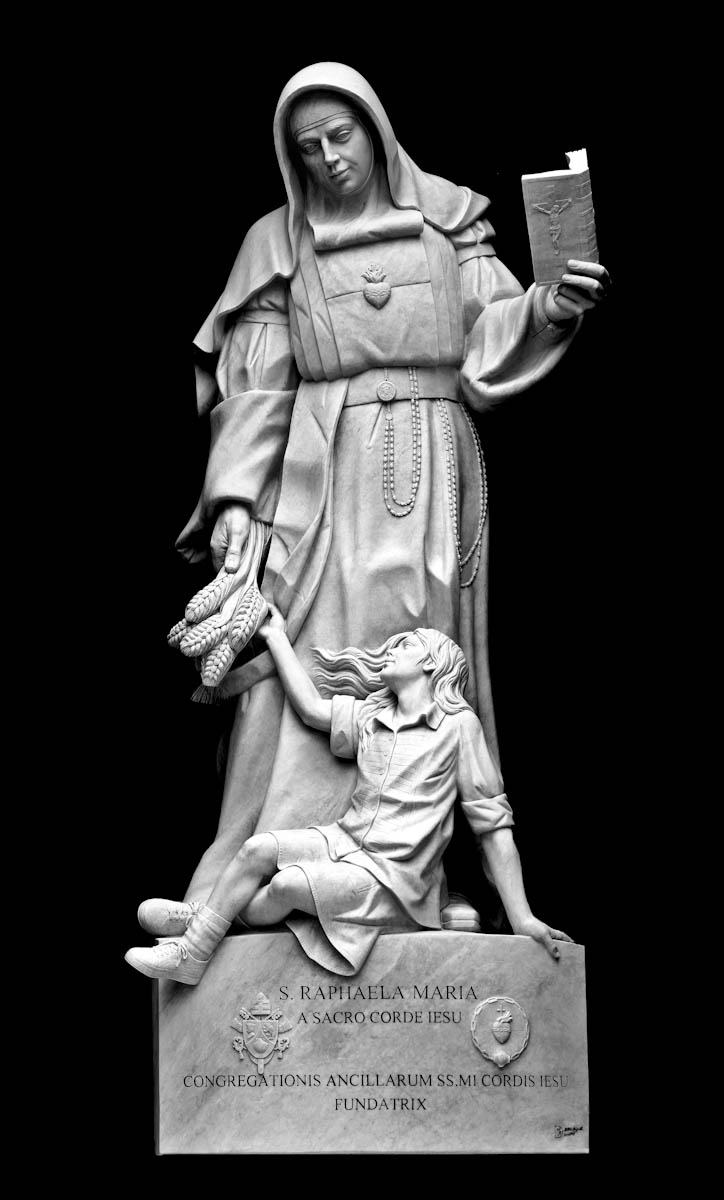 Estatua de Santa Rafaela Maria del Sagrado Corazón de Jesús. Realizado en mármol blanco Carrara de 5´40m de altura. Ubicada en una hornacina de Miguel Ángel en la fachada exterior de la Basílica de San Pedro, Vaticano. ESCULTOR: MARCO AUGUSTO DUEÑAS